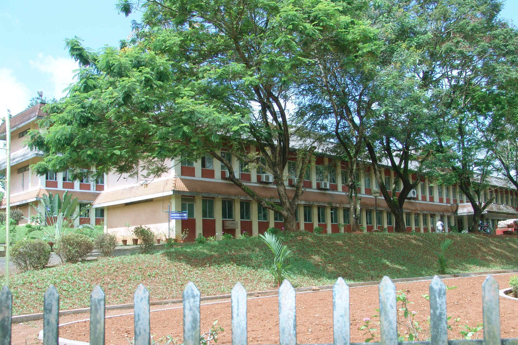 Kerala Institute of Local Administration (KILA) Administrative Building Front